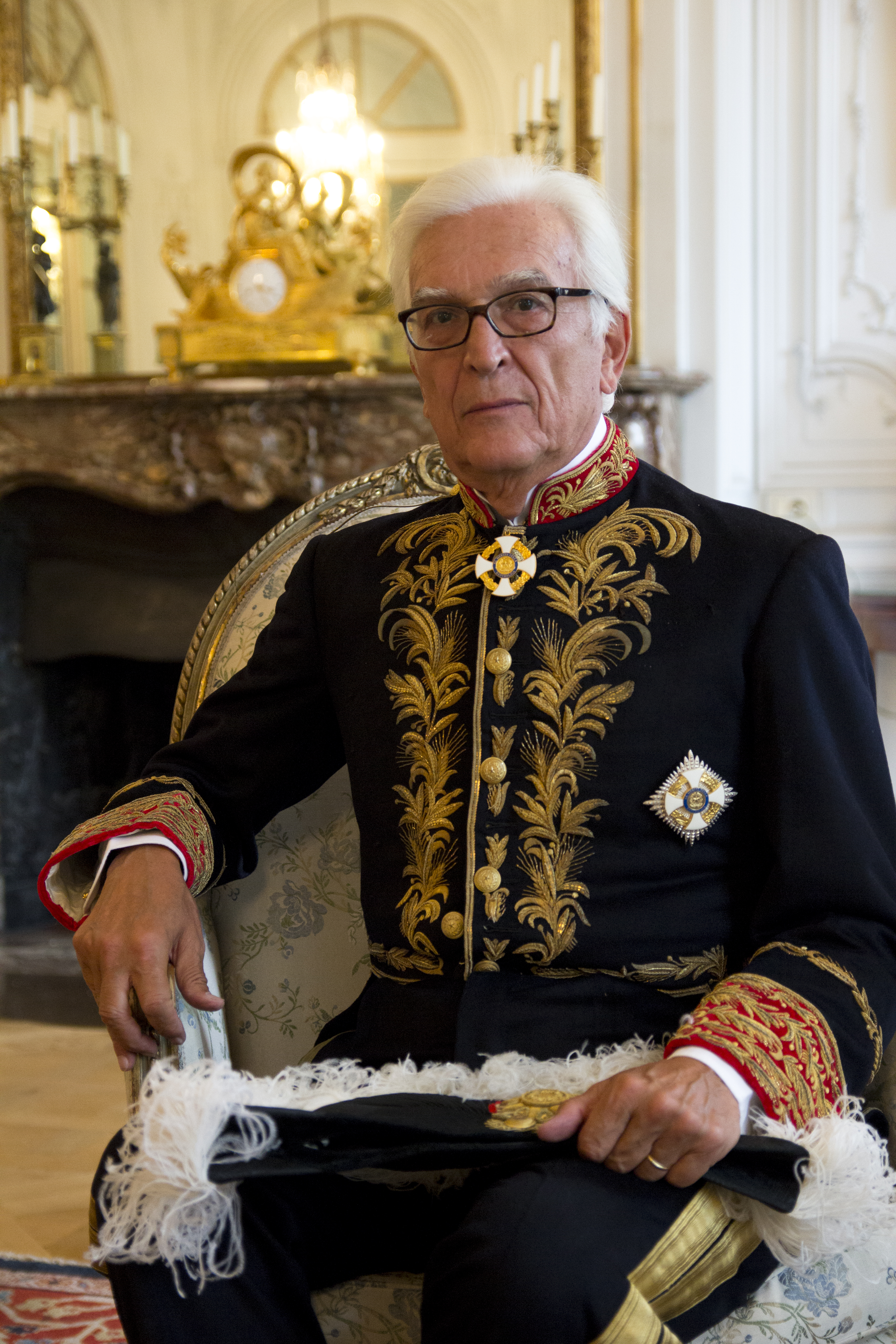 Italian diplomatic uniform